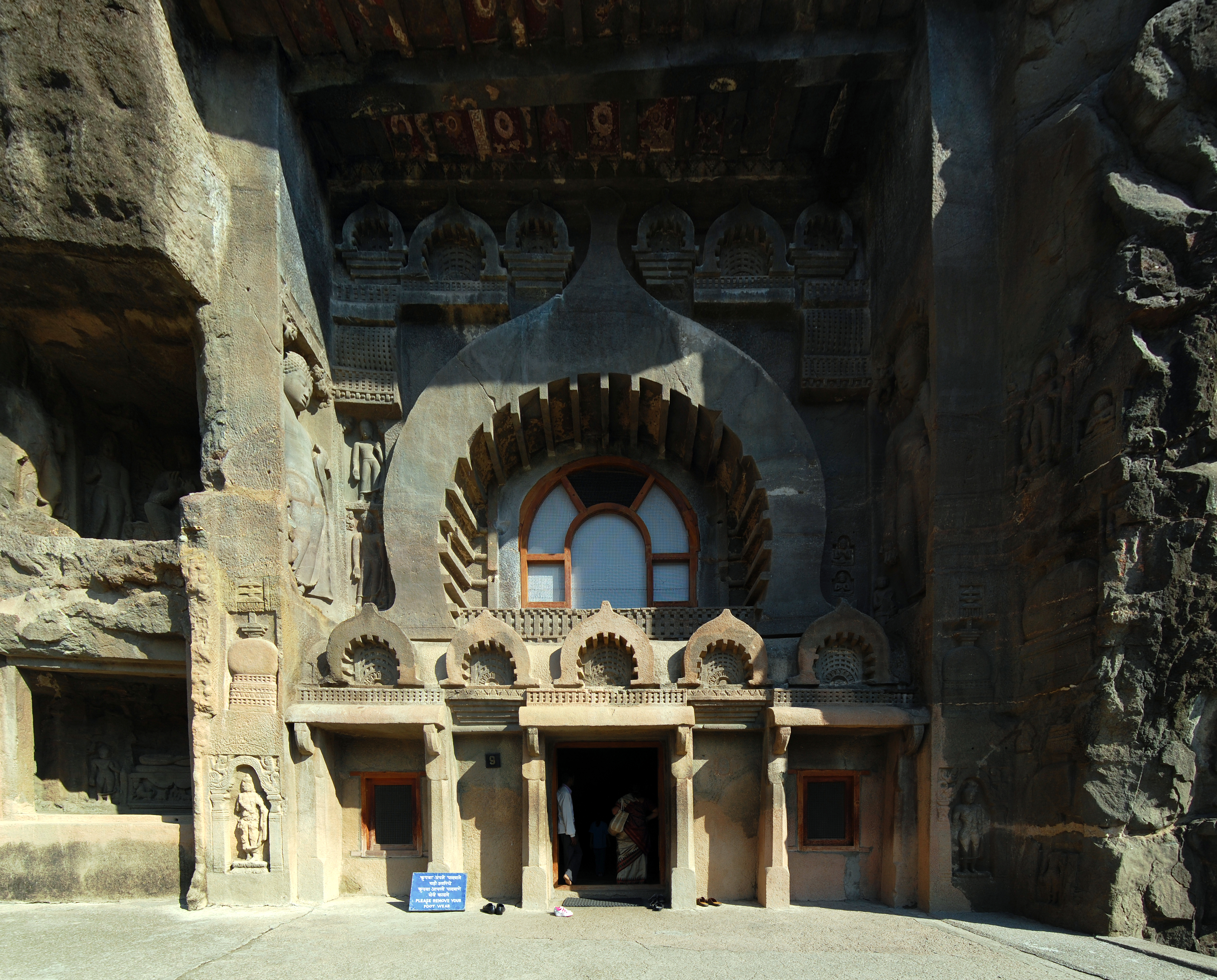 Entrance of the chaitya, Cave no. 9 in Ajanta Caves, India.